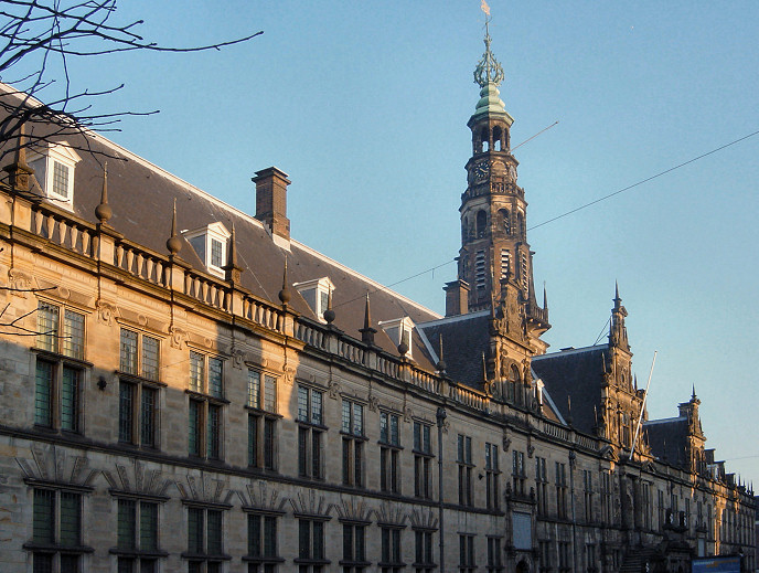 City hall of Leiden